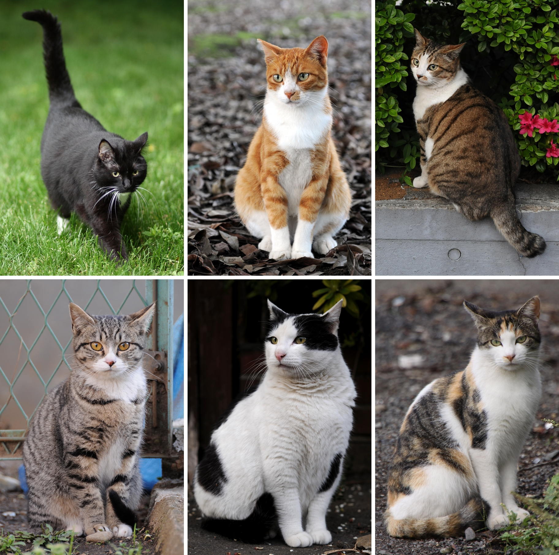 Montage of six cats on Commons